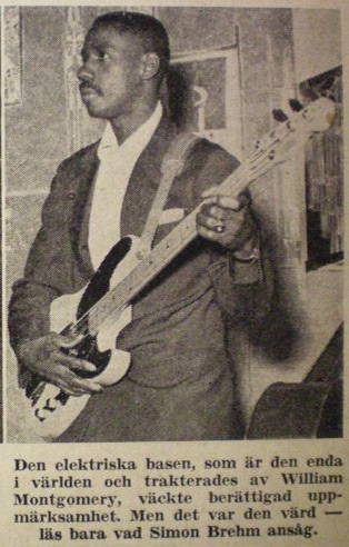 Photograph of William 'Monk' Montgomery, electric bass player, on tour with Lionel Hampton and his Orchestra, Sweden, 1953. Seen here with a Fender Precision Bass. Original source: Estrad magazine, October 1953.